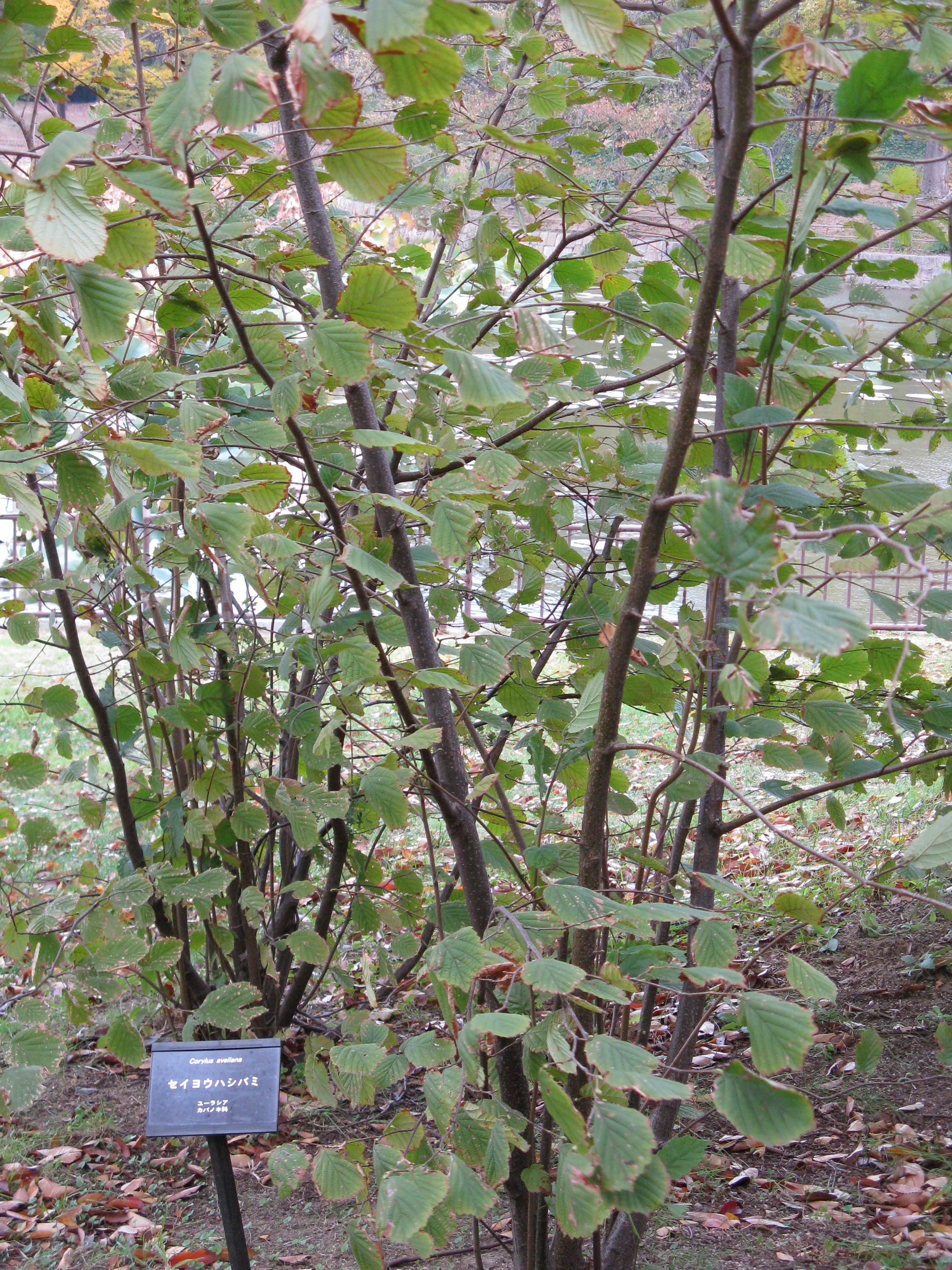 Corylus avellana